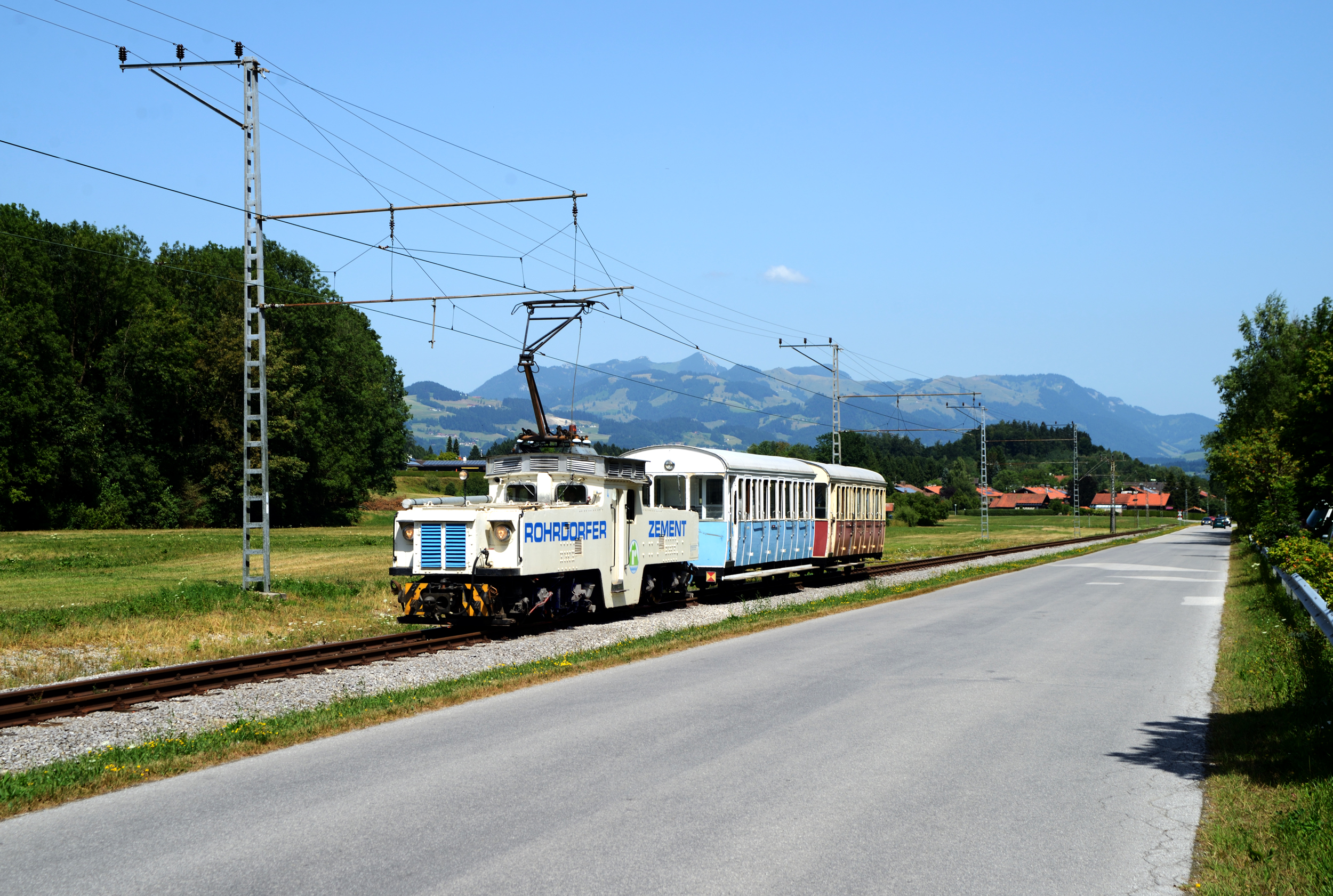 Train of the "Wachtl-Express" between the stations Kohlstatt and Hechtsee.